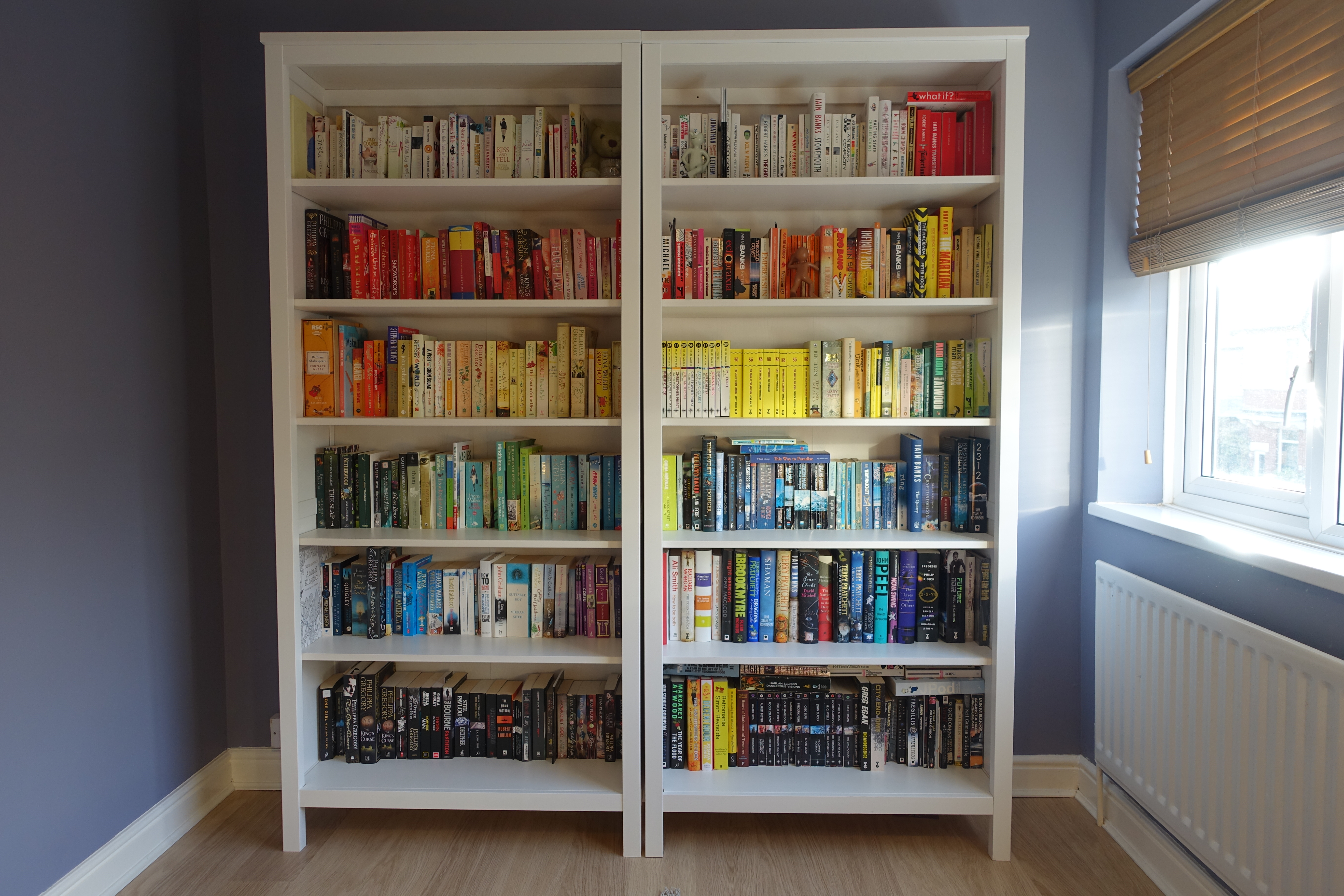 Bookstagrammers and BookTubers classically organize their shelves behind them to be aesthetically pleasing. This rainbow "shelfie" (bookshelf selfie) is an example of one of the most popular of these organizational methods